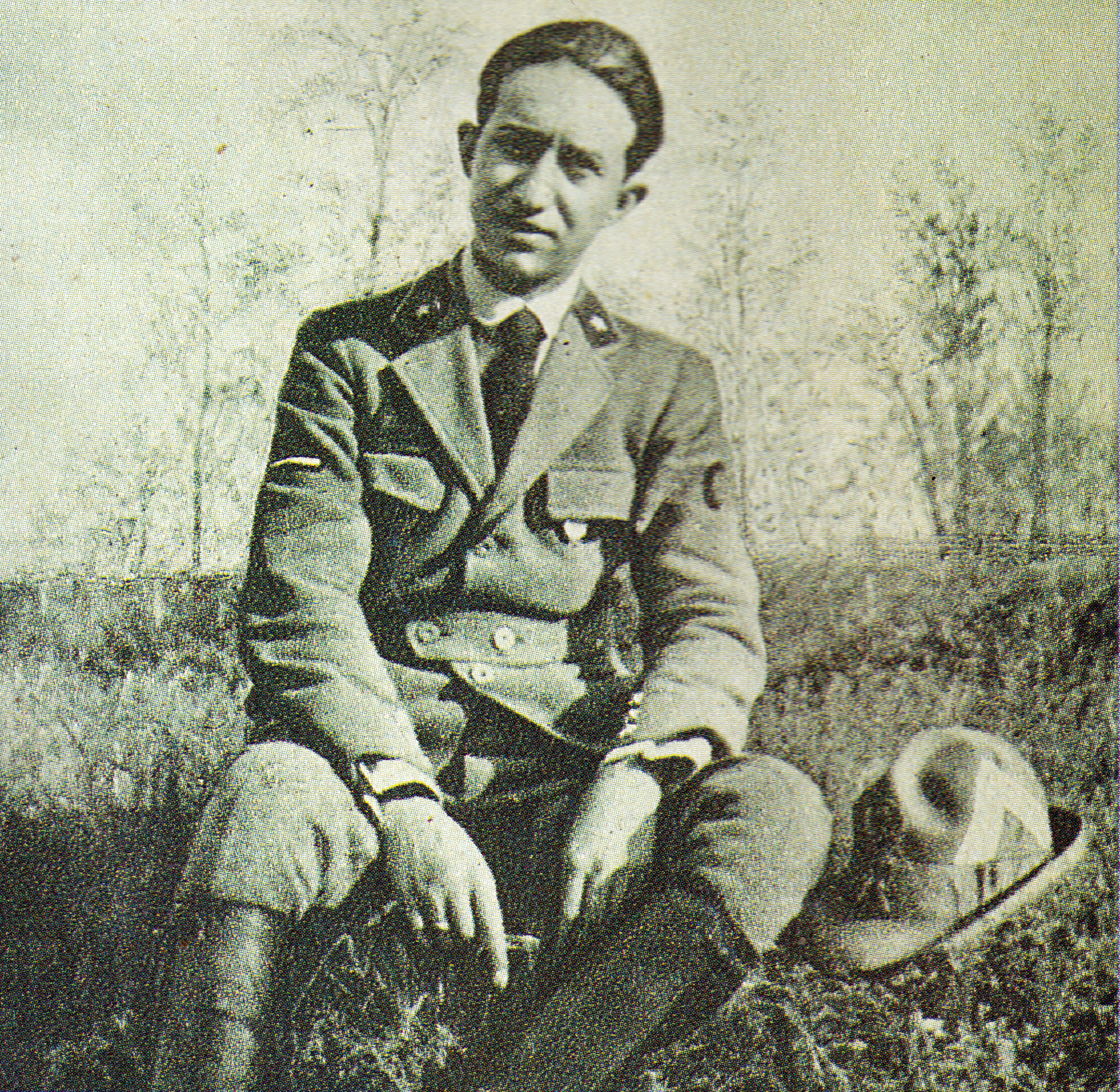 Mario Carli, Captain of the Arditi (Italian Elite Assault Troops)